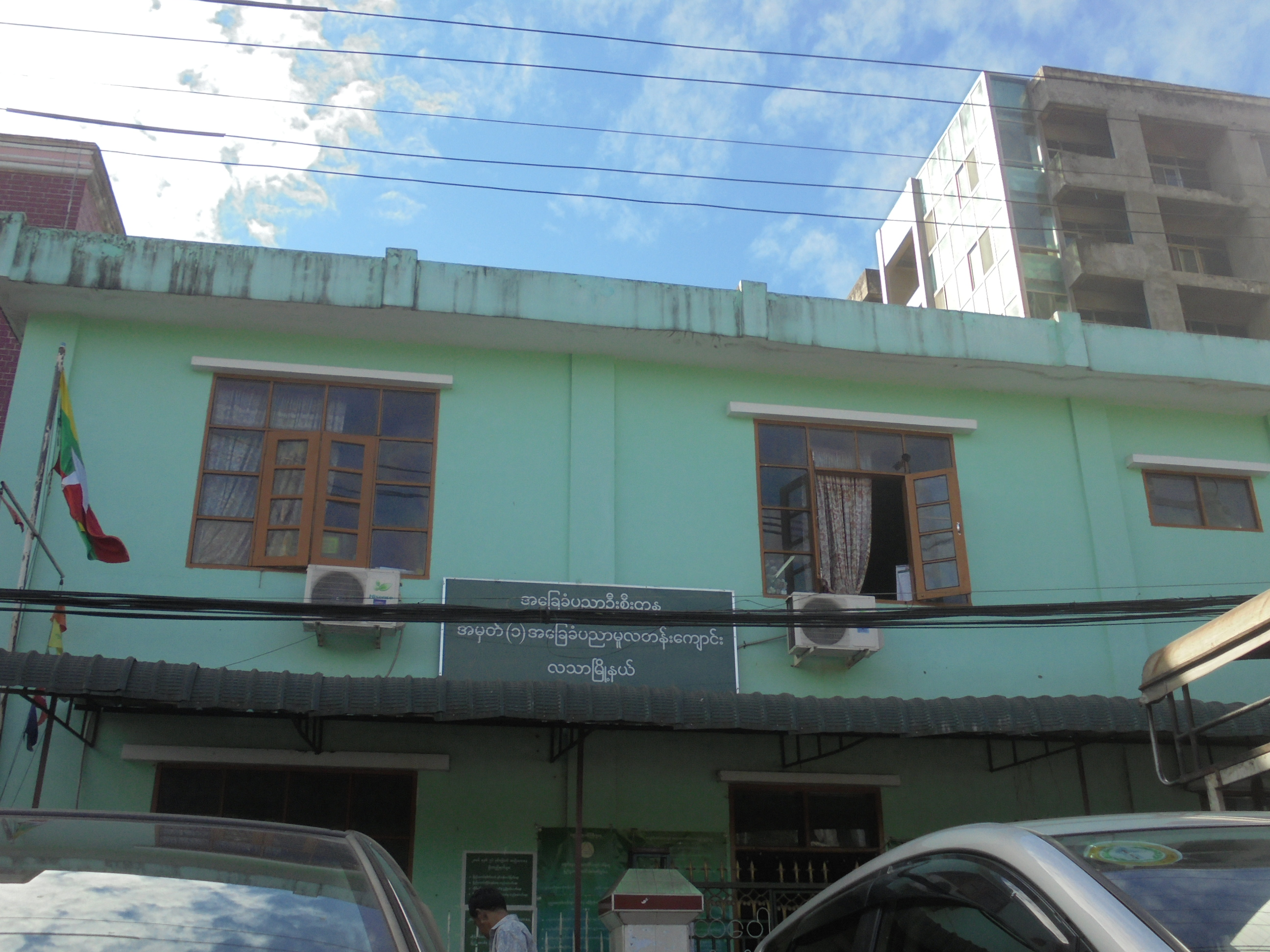 Basic Education Primary School No. 1 Latha, Latha Township, Yangon